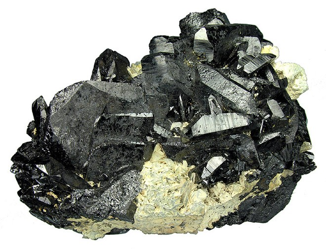 Ferberite Locality: Tazna Mine (Tasna Mine; Tazna-Rosario Mine), Cerro Tazna, Atocha-Quechisla District, Nor Chichas Province, Potosí Department, Bolivia (Locality at ) Size: 12.0 x 8.8 x 6.7 cm. This is a very impressive, display specimen of Ferberite from Bolivia. The piece features several sharp, lustrous, aesthetic, jet-black crystals measuring up to 4.0 cm forming a beautiful display specimen. The crystals are sitting on bladed grey Arsenopyrite matrix with a few small gem Quartz crystals. These Bolivian Ferberites are often underrated and stand up well against any other Ferberites from China or Panasqueira. This piece was from the famous find in 1999 at Tasna.